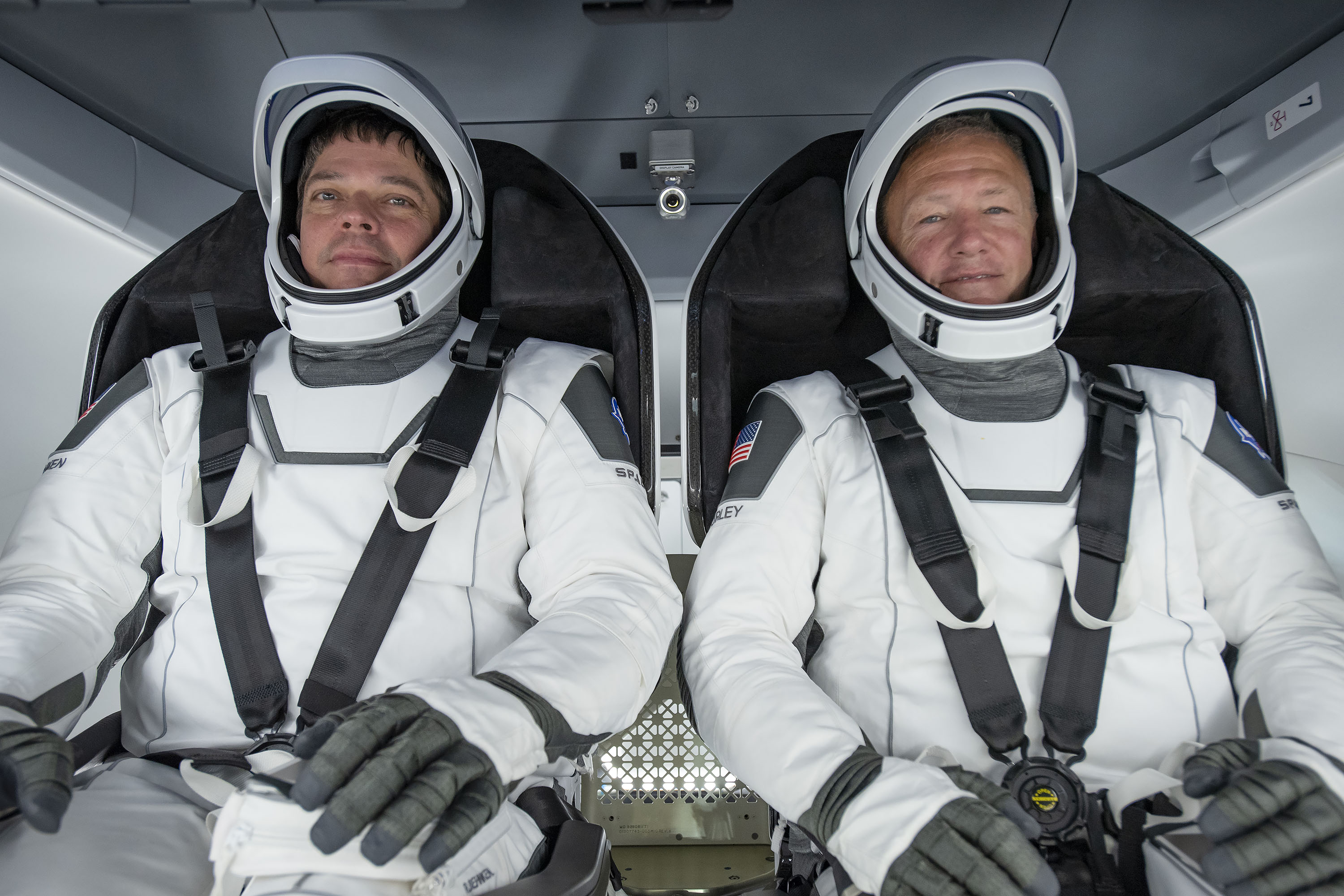 NASA’s SpaceX Demo-2 mission will return U.S human spaceflight to the International Space Station from U.S. soil with astronauts Robert Behnken and Douglas Hurley on an American rocket and spacecraft for the first time since 2011. In March 2020, at a SpaceX processing facility on Cape Canaveral Air Force Station in Florida, SpaceX successfully completed a fully integrated test of critical crew flight hardware ahead of Crew Dragon’s second demonstration mission to the International Space Station for NASA's Commercial Crew Program; the first flight test with astronauts onboard the spacecraft. Behnken and Hurley participated in the test, which included flight suit leak checks, spacecraft sound verification, display panel and cargo bin inspections, seat hardware rotations, and more